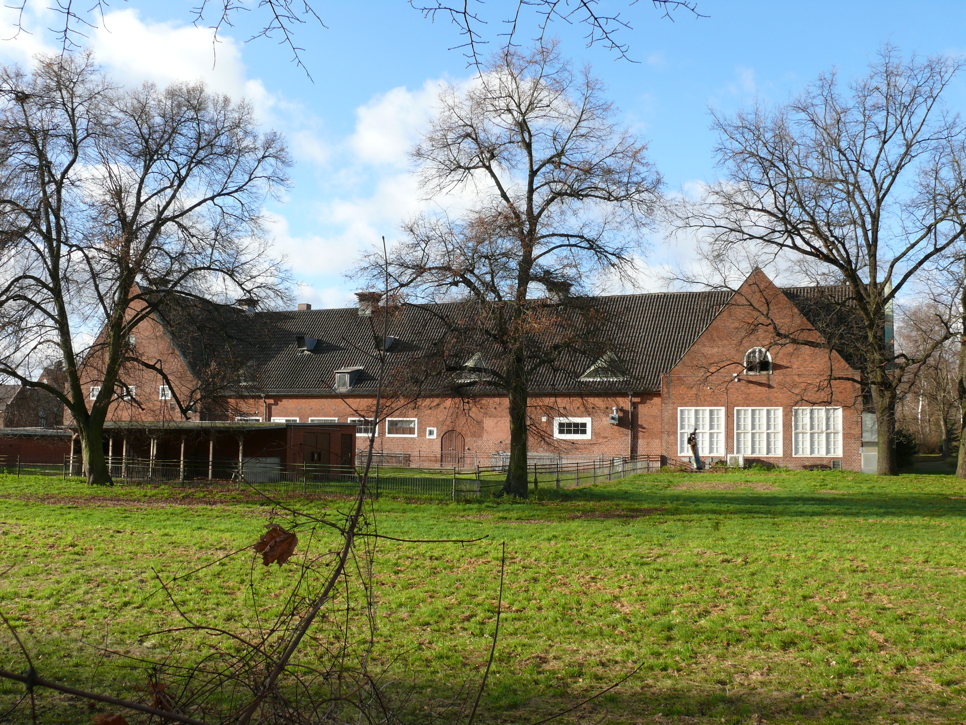 Berlin-Dahlem Gregor-Mendel-Straße